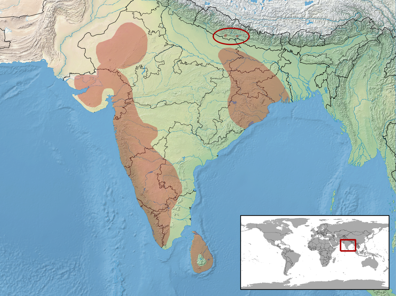 geographic distribution of Boiga forsteni (Native: India; Nepal; Sri Lanka)